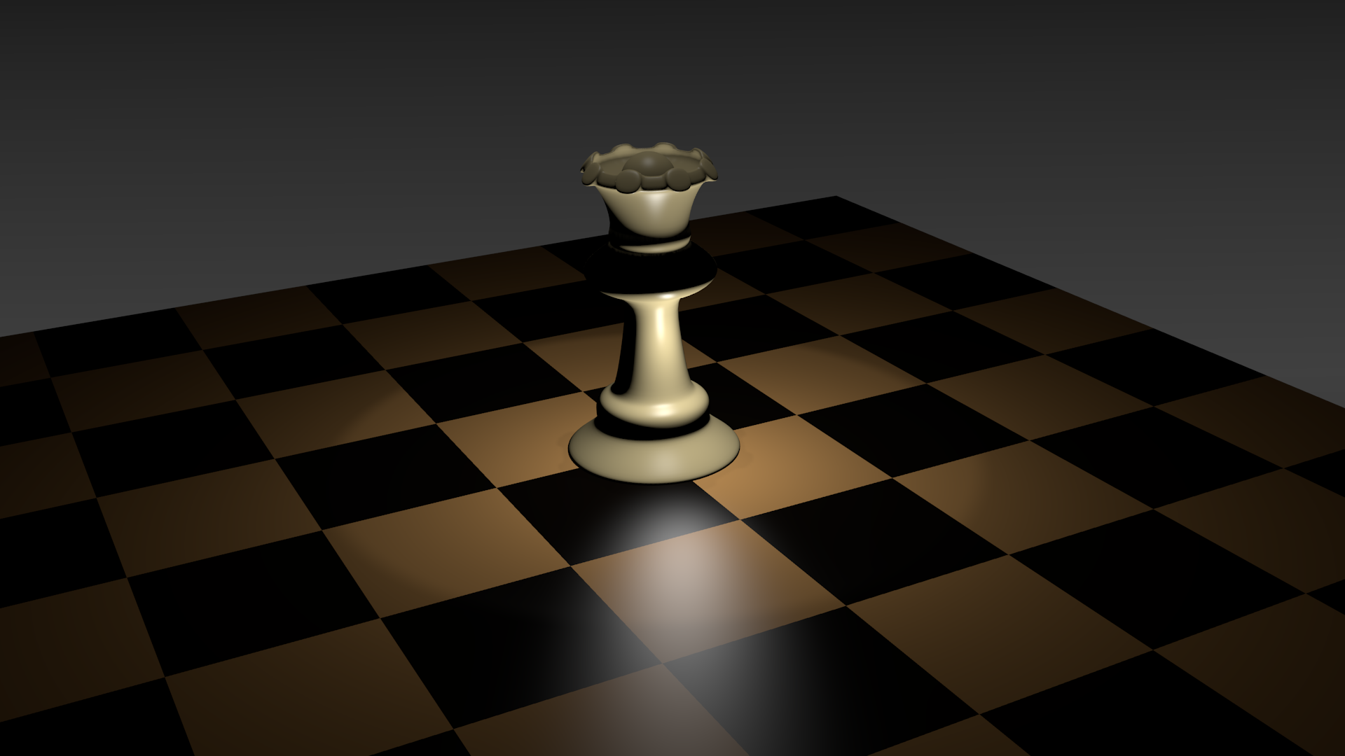 3D rendering of a queen chess piece. It's an image with blender "Blender render"